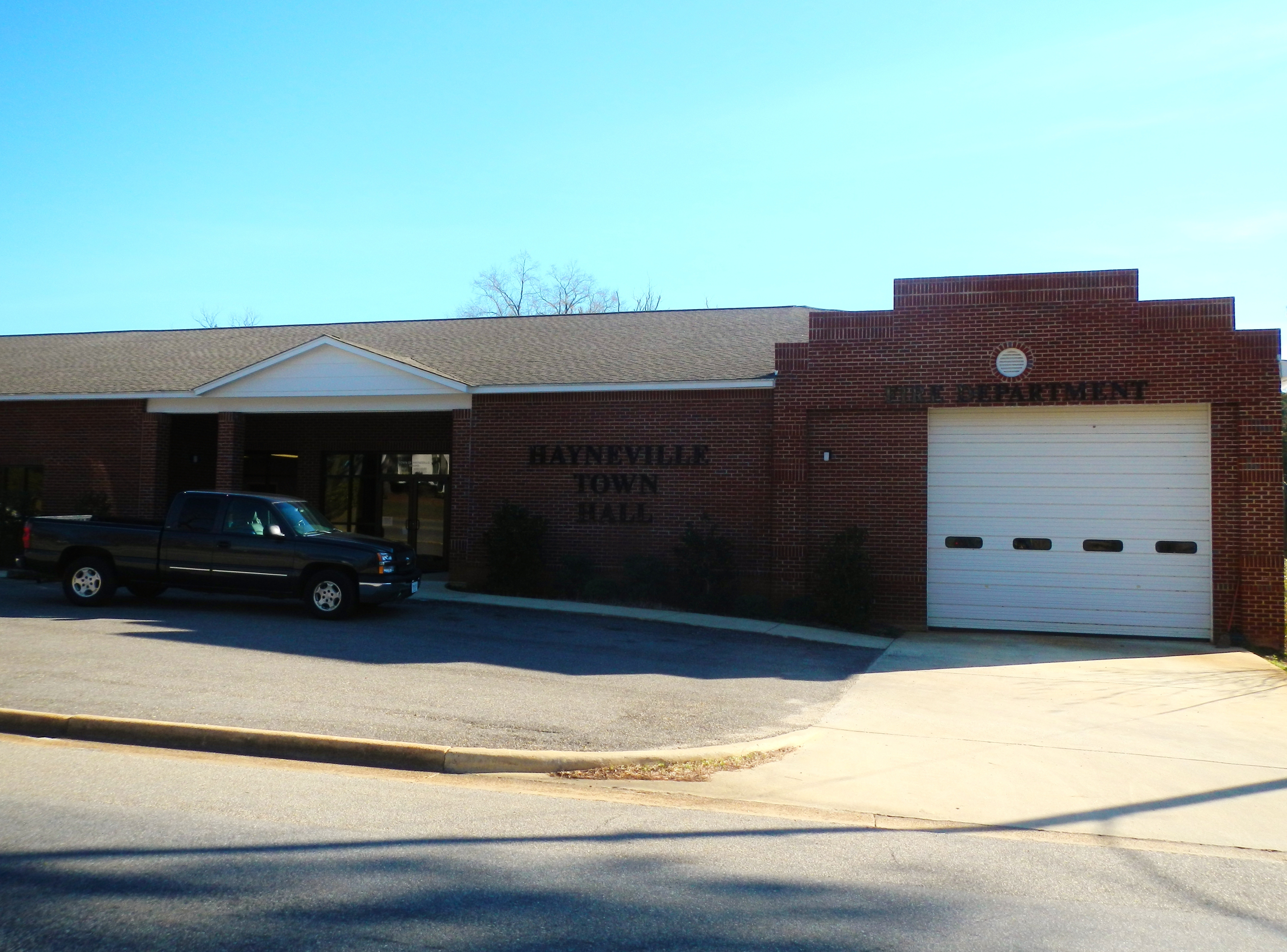 This is a photograph of the building which houses the town hall, police and fire departments of Hayneville, Alabama.